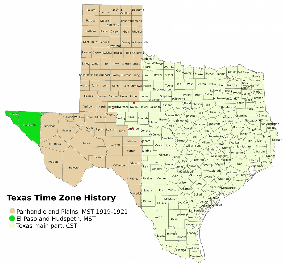 Time zone map of Texas. The boundary between CT zone and MT-1919/21 zone is partly guesswork. Only the southern part along the 100th meridian is sure, and the fact that the three towns marked in red are near the boundary but on CT side.